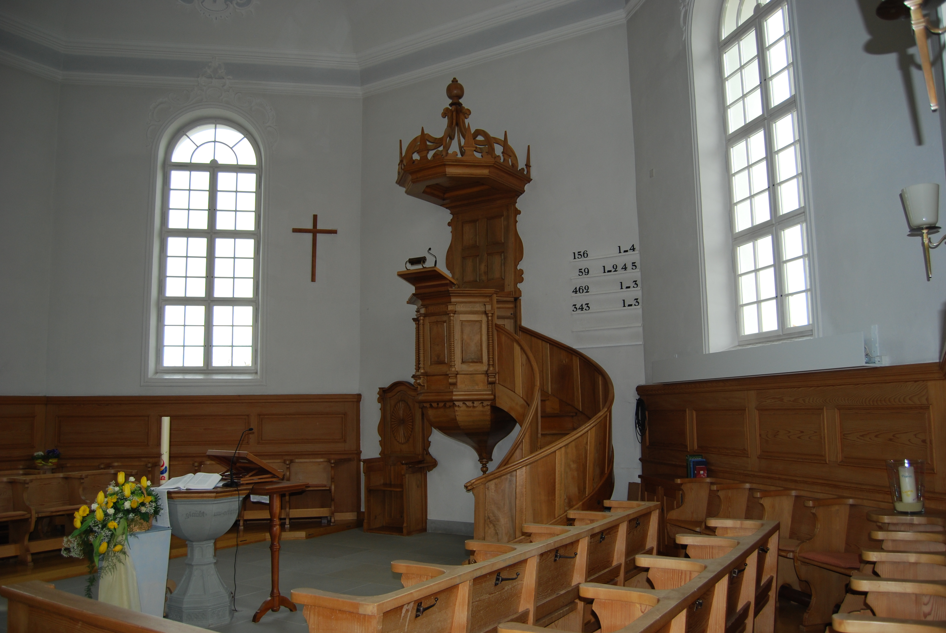 Protestant church of Erlen, canton of Thurgovia, SwitzerlandEsperanto: Reformita preĝejo de Erlen, Kantono Turgovio, Svislando